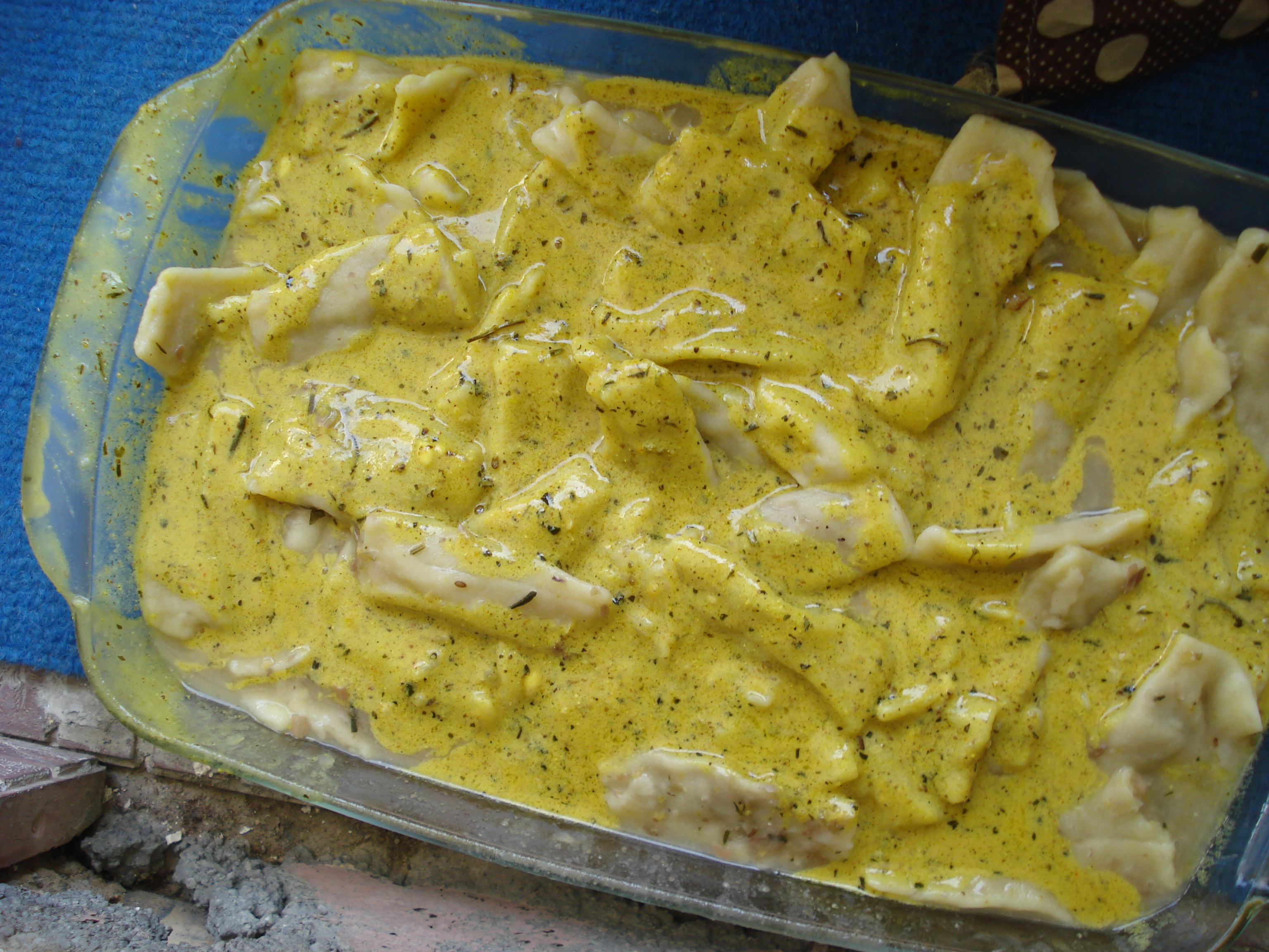 a traditional most favorite food in Gonabad County, Iran. A food of festivals.